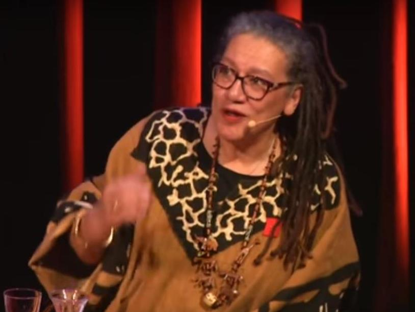 Dutch writer Gloria Wekker during an Audre Lorde Tribute in Amsterdam, 6 March 2016